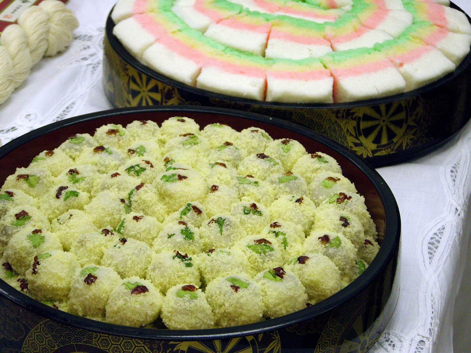 Tteok (rice cake) for dol or called doljanchi, Korean traditional way of celebrating a birth day of one-year-old baby.